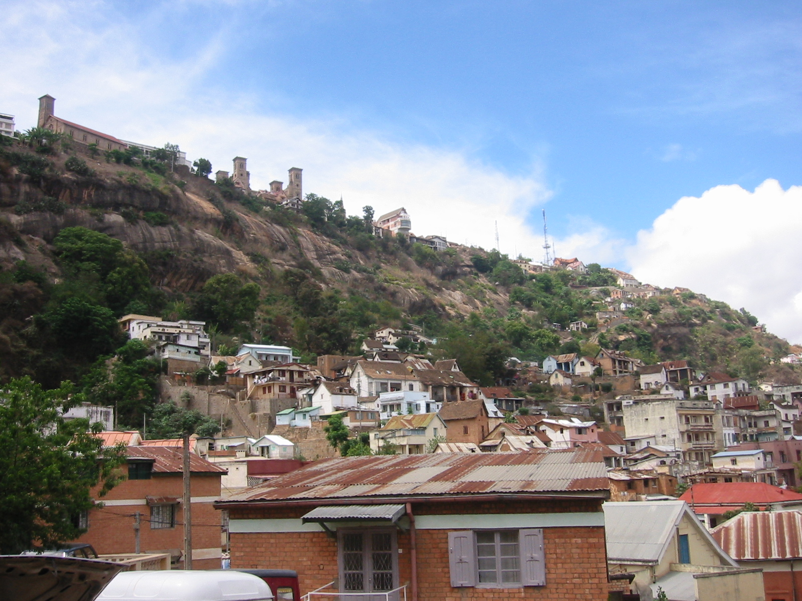 On the hilltop of Analamanga sit the ruins of the Rova, the royal compound of the Merina kings and queens, dominating the skyline of Antananarivo, Madagascar